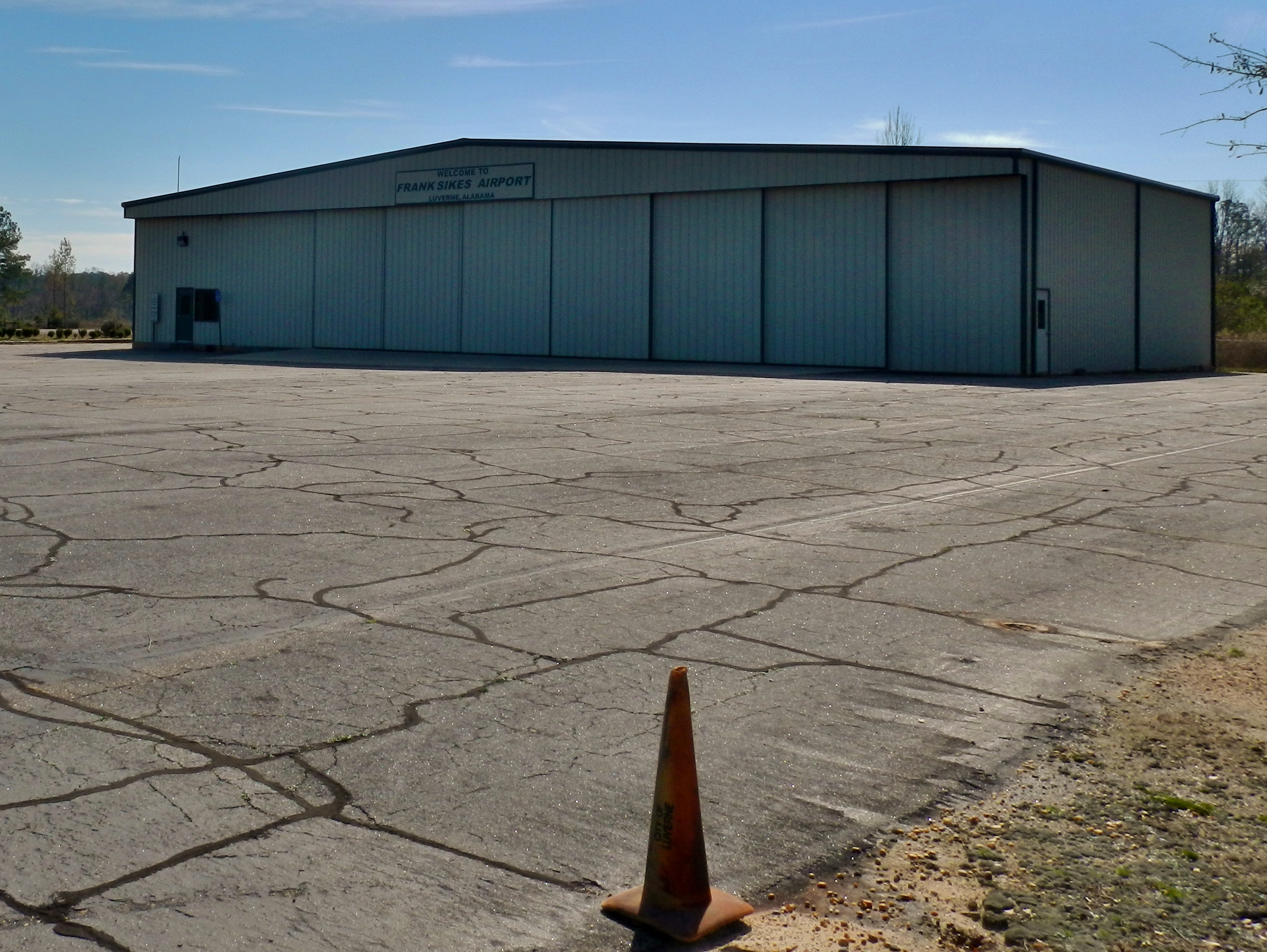 This is a photograph of the Frank Sikes Airport in Luverne, Alabama.